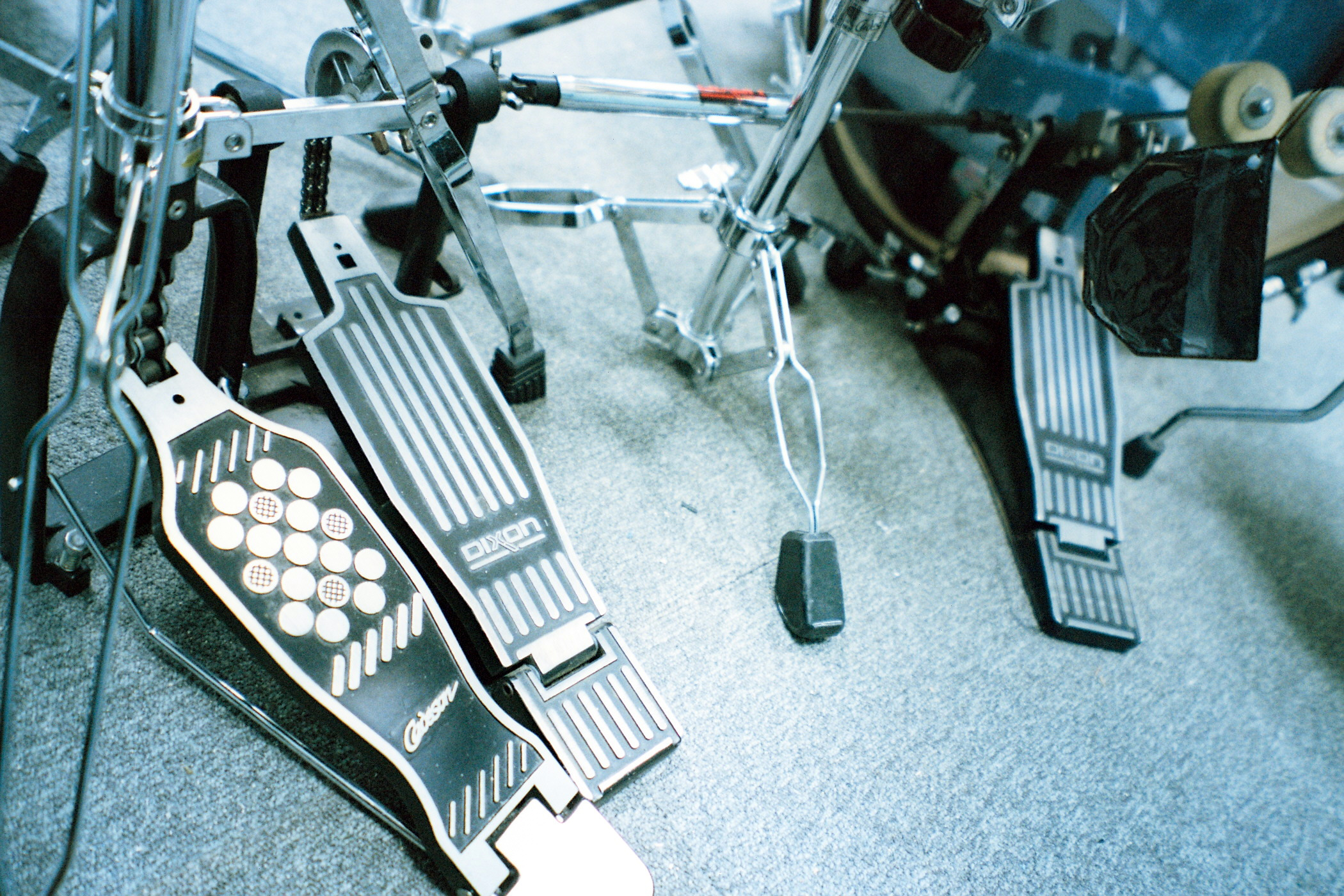 Dixon double bass drum pedal